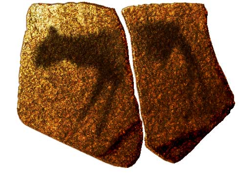 Artist impression of a zoomorphic pictogram on stone slab from the MSA of Apollo 11 Cave, Namibia